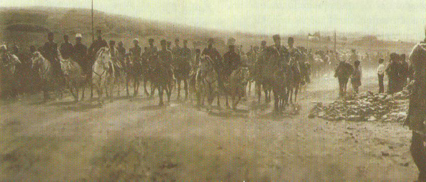 Caucasus Army of Islam passing through Qazakh, Azerbaijan.